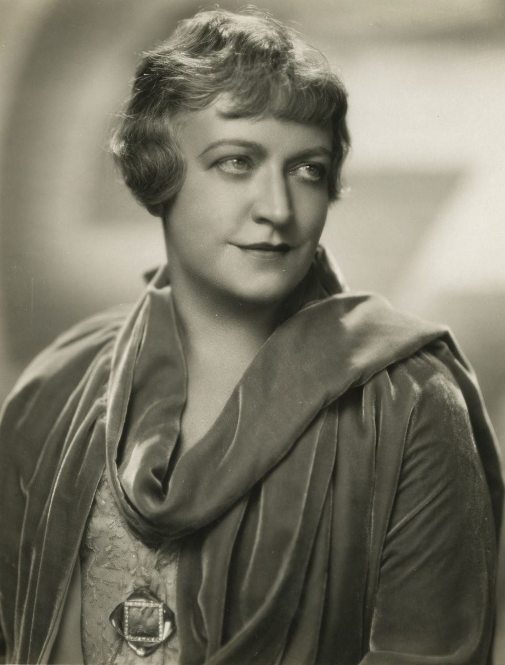 Lucile Gleason in The Shannons of Broadway - publicity still (cropped)